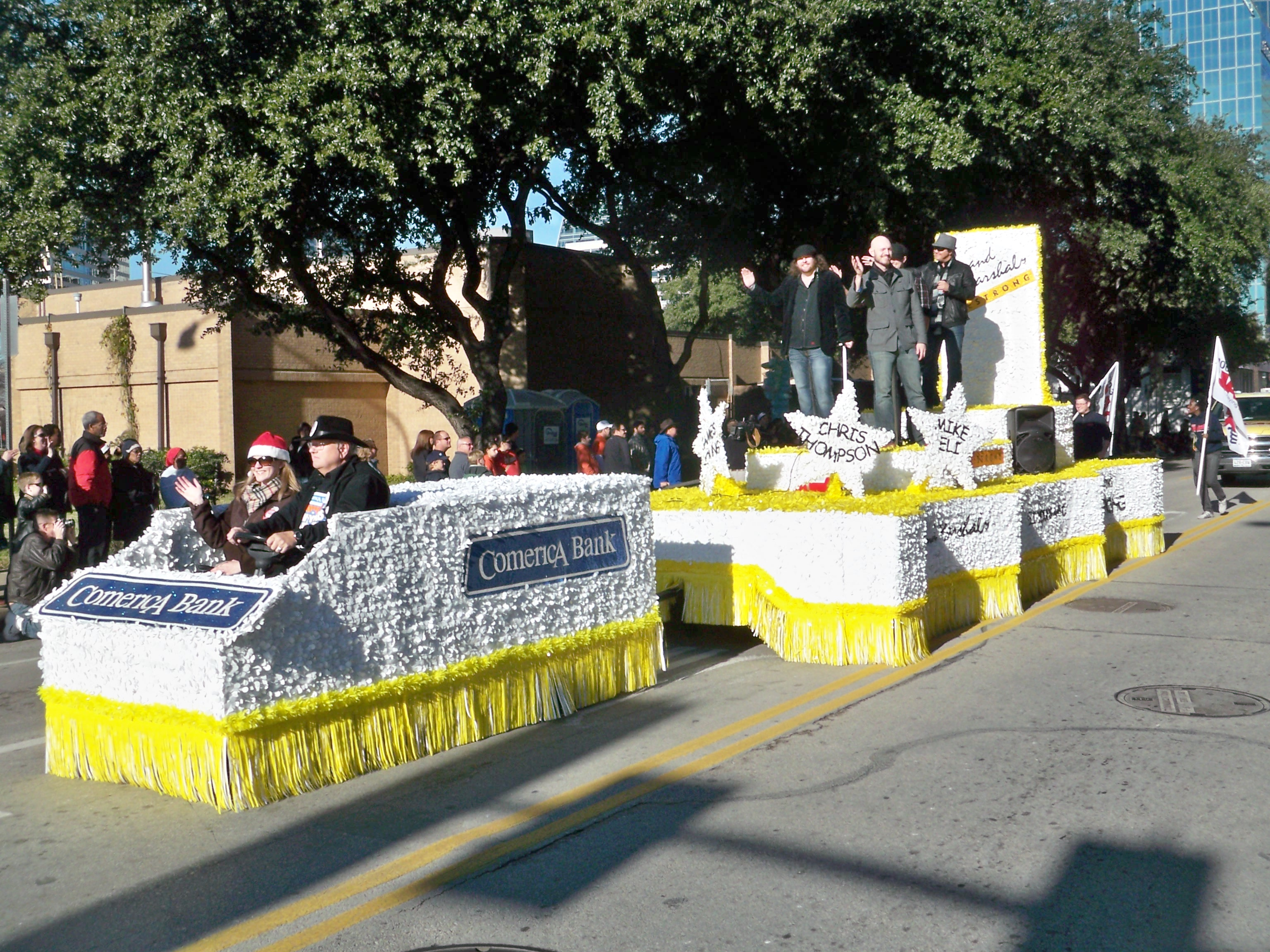 Shot of the Comerica Bank New Year's Day Parade